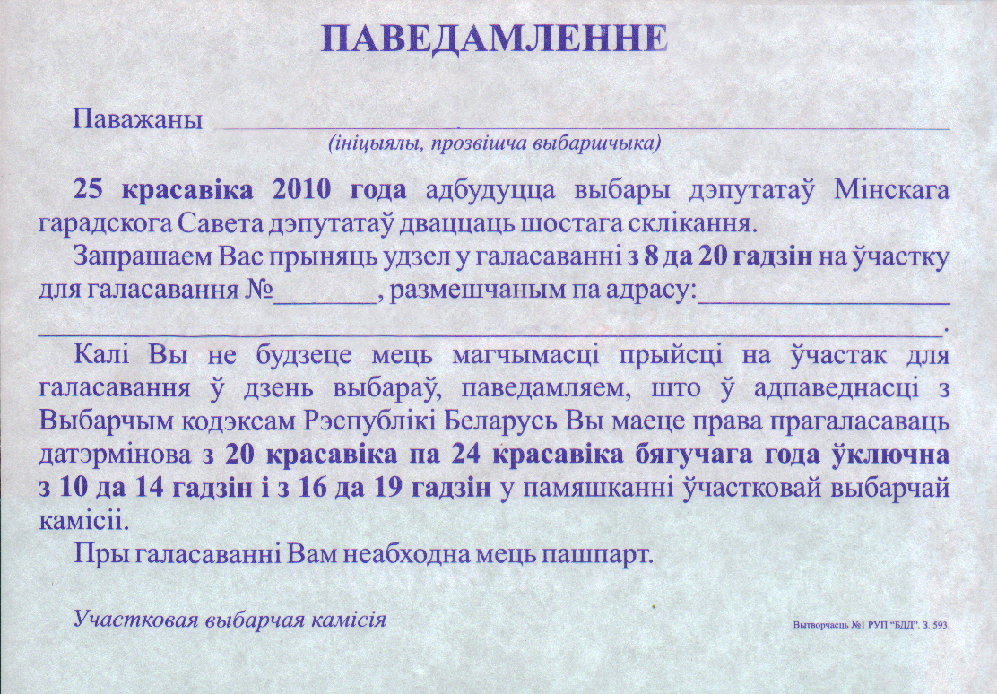 Voter invitation to municipal elections to the Minsk City Soviet of Representatives, 25.04.2010